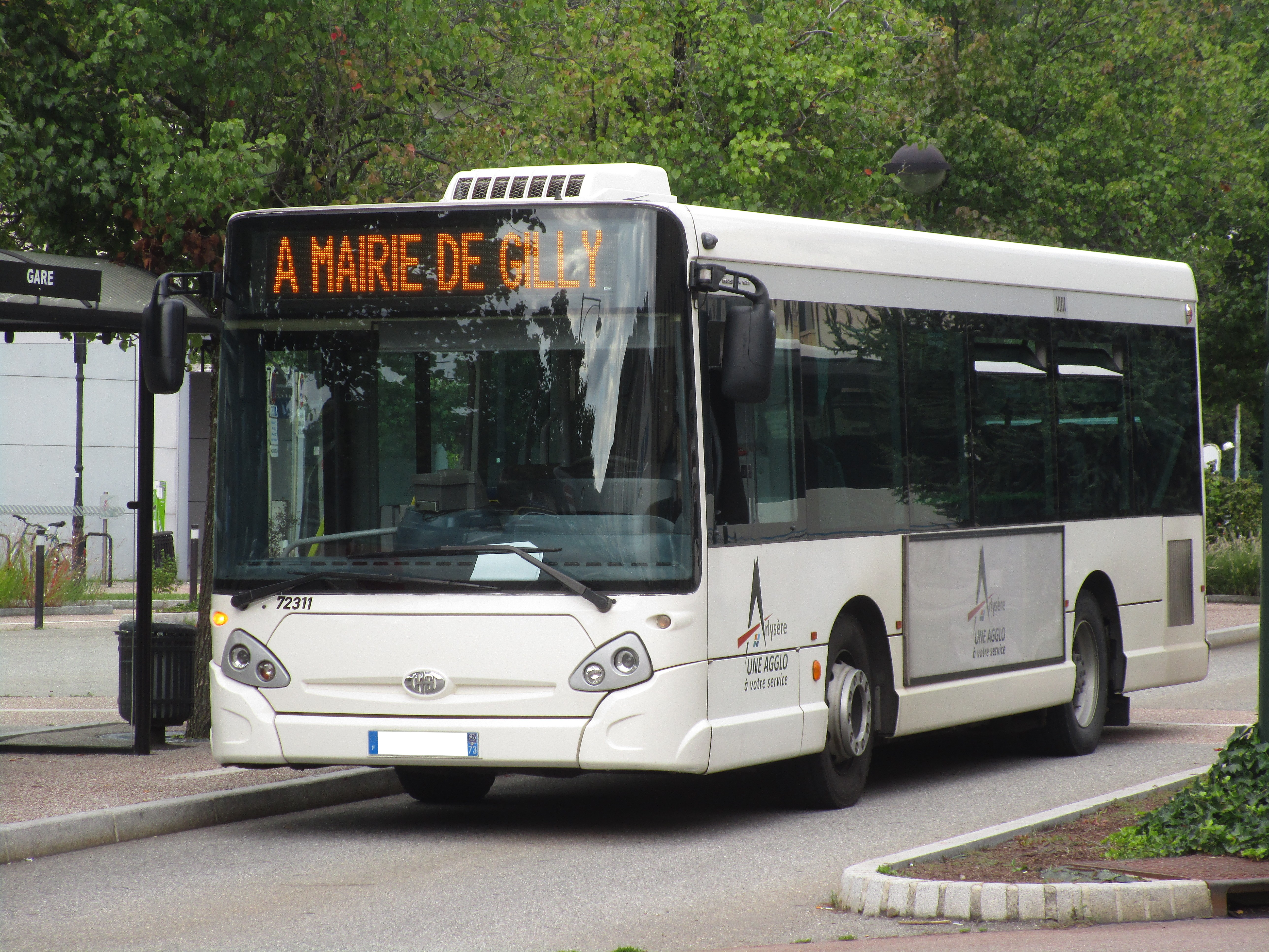 A Heuliez GX 127 (n°72311 of the French agglomeration community Arlysère) running on TRA’s line 1 — Croix de l’Orme, Albertville↔Mairie de Gilly, Gilly-sur-Isère — at the call Gare (Albertville, France) on August 9, 2017.